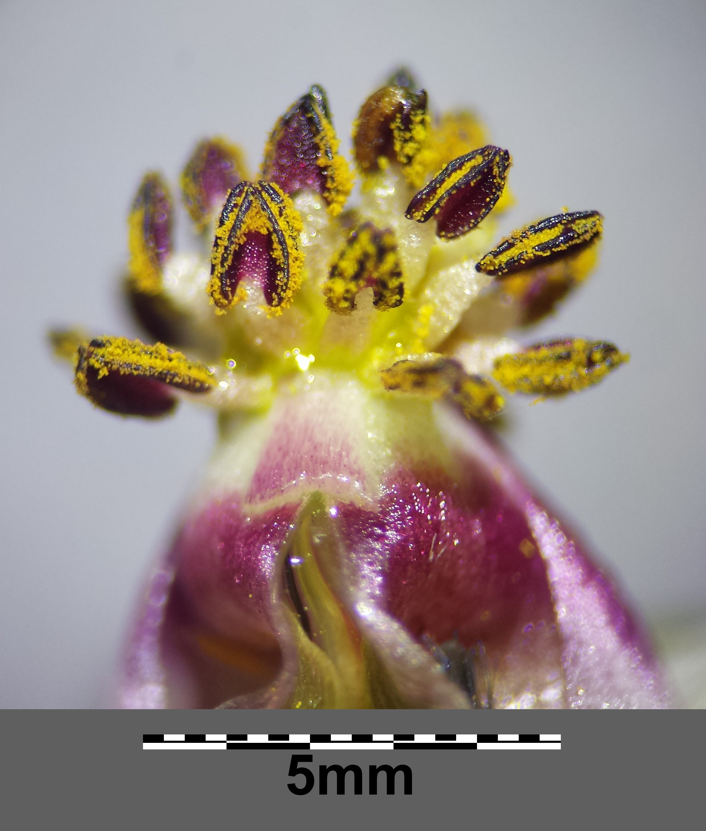 ♂ flower with stamina Taxonym: Sagittaria sagittifolia ss Fischer et al. EfÖLS 2008 ISBN 978-3-85474-187-9 Location: Neue Donau, district Korneuburg, Lower Austria - ca. 160 m a.s.l. Habitat: shore